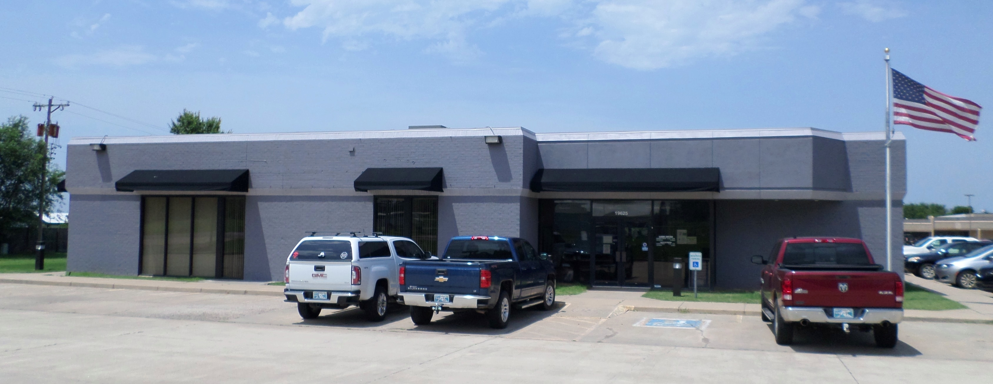 Harrah City Hall, located at 19625 NE. 23rd St., Harrah, OK.